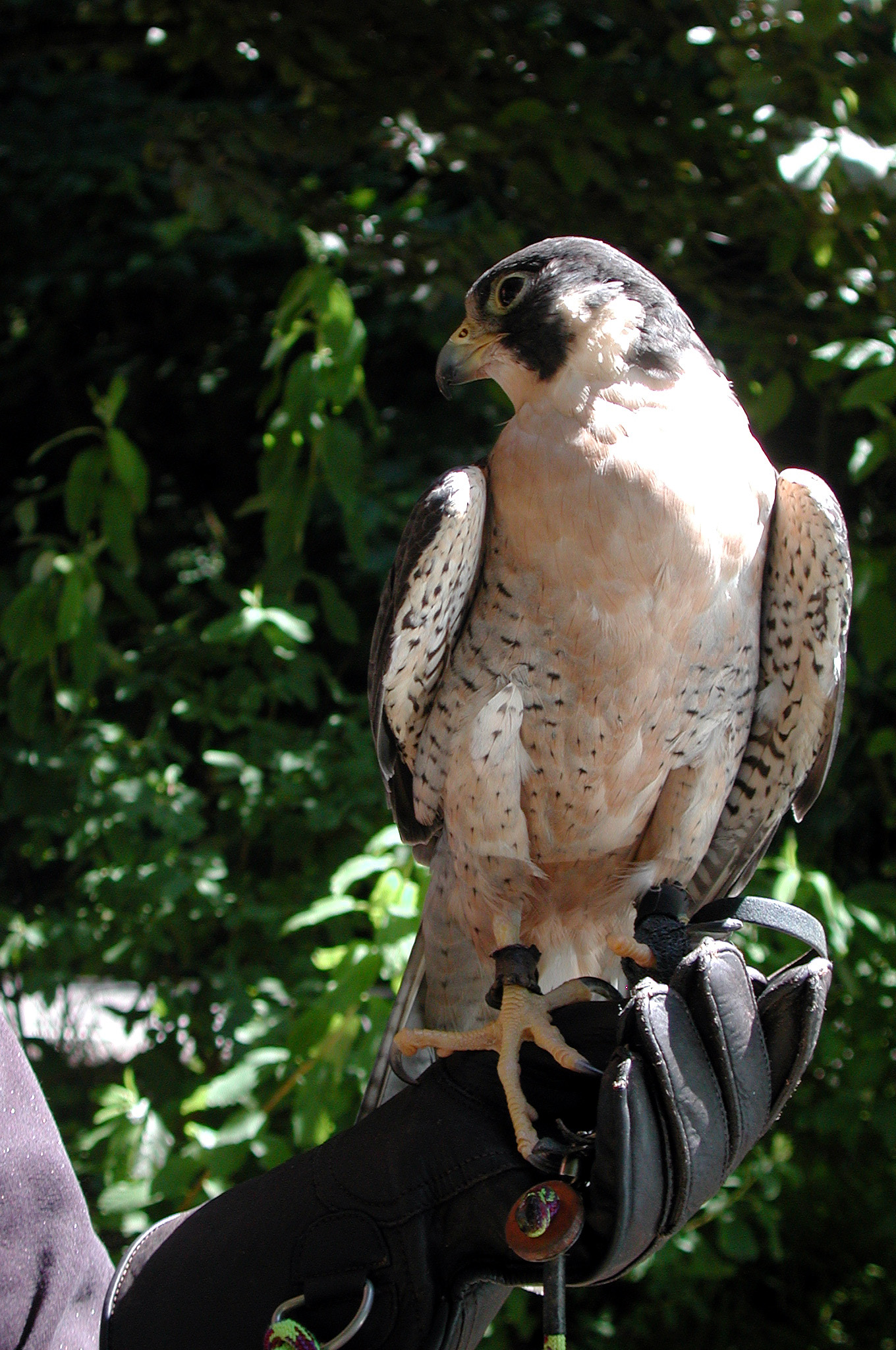 Peregrine falcon and handler at the Portland Audubon Society, in Portland, Oregon. Photo taken outside the wildlife care center looking toward Northwest Cornell Road.